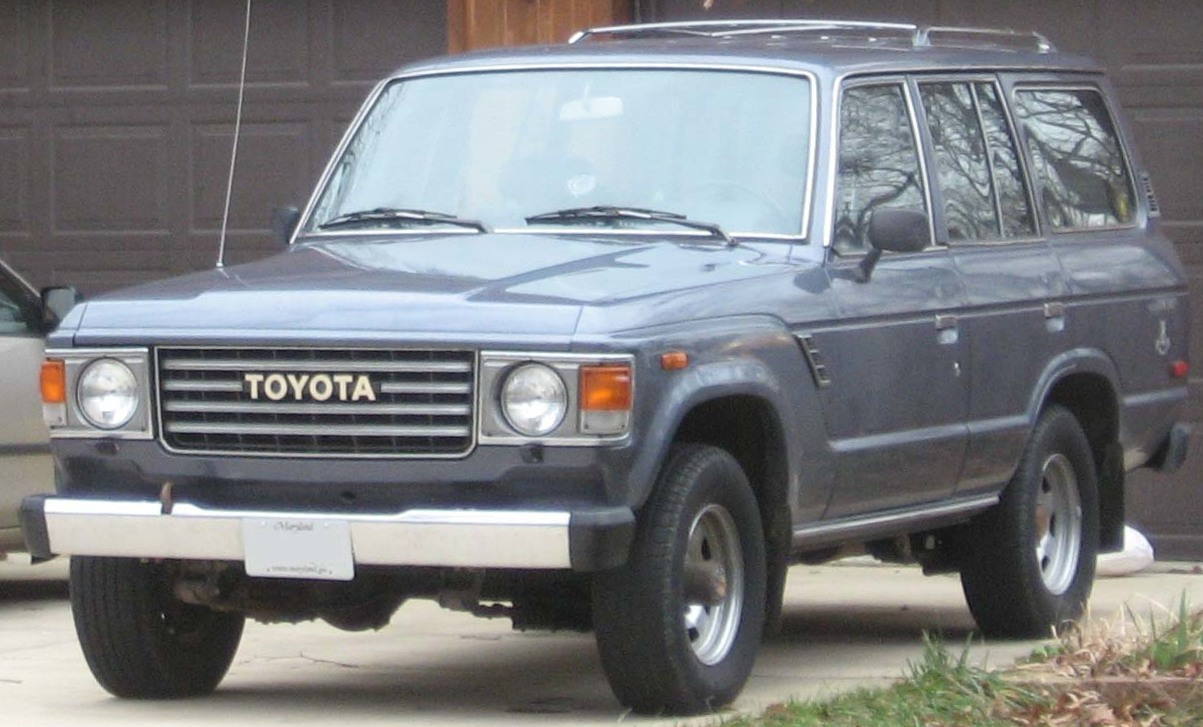 1981-1987 Toyota Land Cruiser FJ60LG photographed in Fort Washington, Maryland, USA.